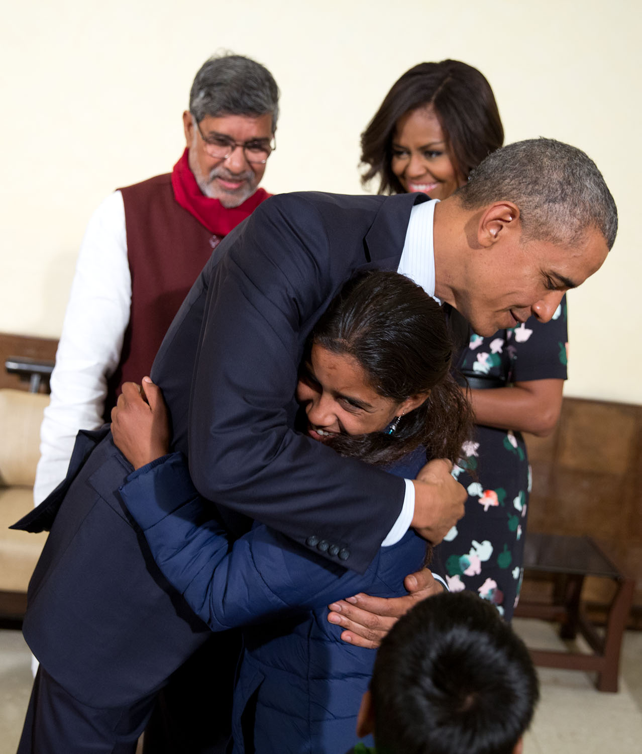 President Obama greets a young girl who was the guest of Nobel Peace Prize winner Kailash Satyarthi (background), during a greet with the First Lady in New Delhi.